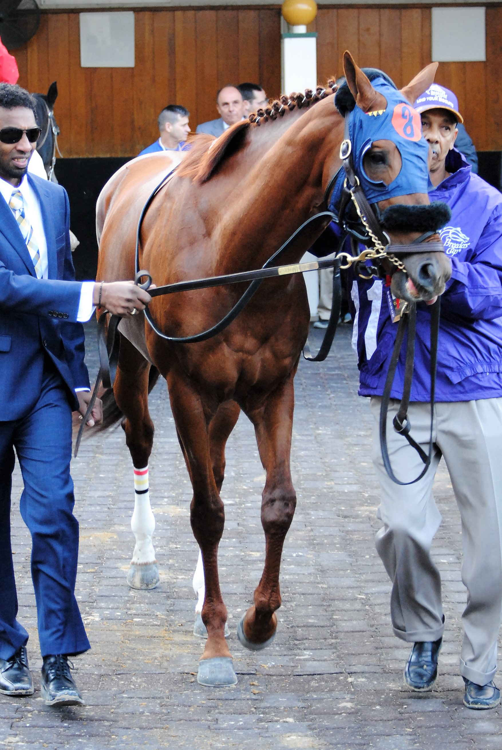 Mind Your Biscuits at the 2018 Breeders' Cup